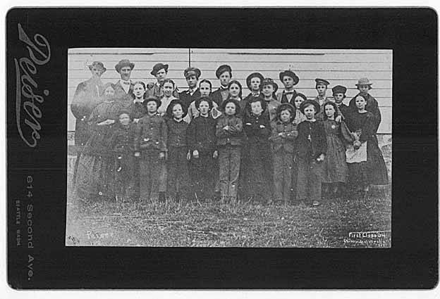 The first classes at the Territorial University enrolled both Seattle public school children and university students . Caption on image: First Class '64, University of Washington, no. 2 . Printed on mount: Peiser, 614 Second Ave., Seattle Wash . Handwritten on verso: Peiser copy after Sammis . Peiser 182a